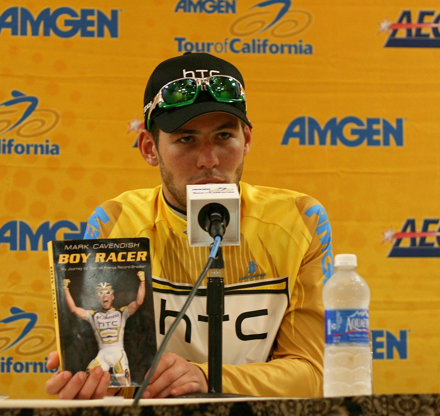 You can read the story about Cav holding this book in the New York Times. I'm the "reporter" mentioned in that article who owns this book. Update: More mentions in the media. The Santa Rosa Press Democrat story on "the book incident" is pretty funny: Velonation: Sacramento Bee